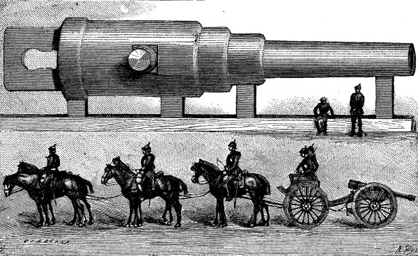 Krupp 15.6 inch gun "40 cm. kanone L/40," Original caption: FIG. 1.—NEW 52 FOOT KRUPP GUN AND A GERMAN FIELD PIECE FIGURED ON THE SAME SCALE